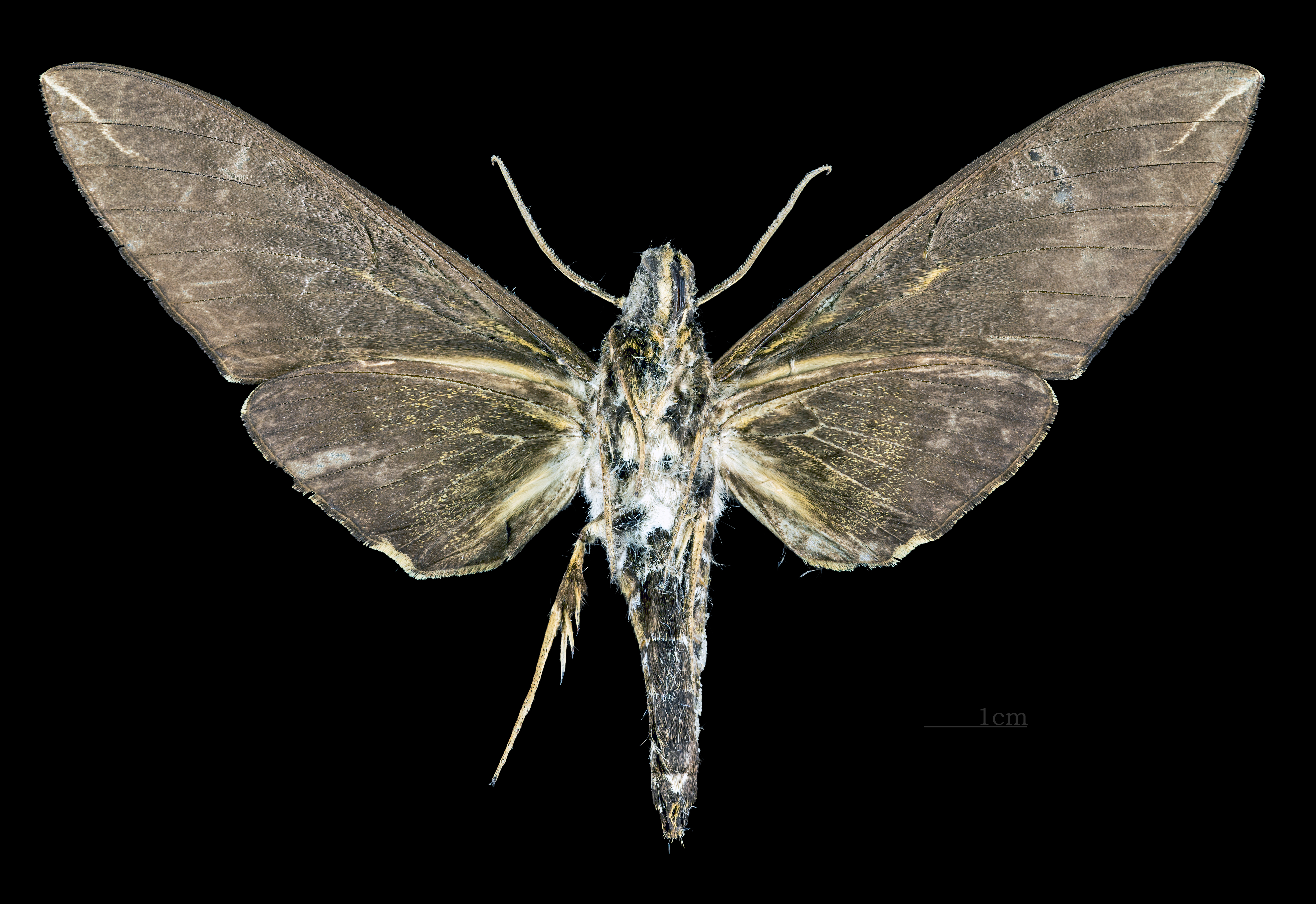 Apocalypsis velox - △ Ventral side Collection of the Mathematician Laurent Schwartz